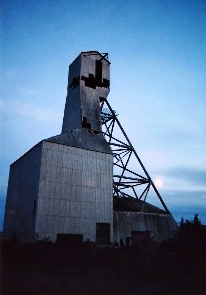 Gunnar Headframe at dusk, summer 1997. The entire mine and townsite - 1000 people lived in Gunnar at the time of the closure - was abandoned on the northern shore of Lake Athabasca in 1963.